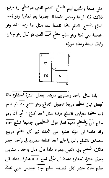 A page from The Algebra of Mohammed ben Musa by Fredrick Rosen.